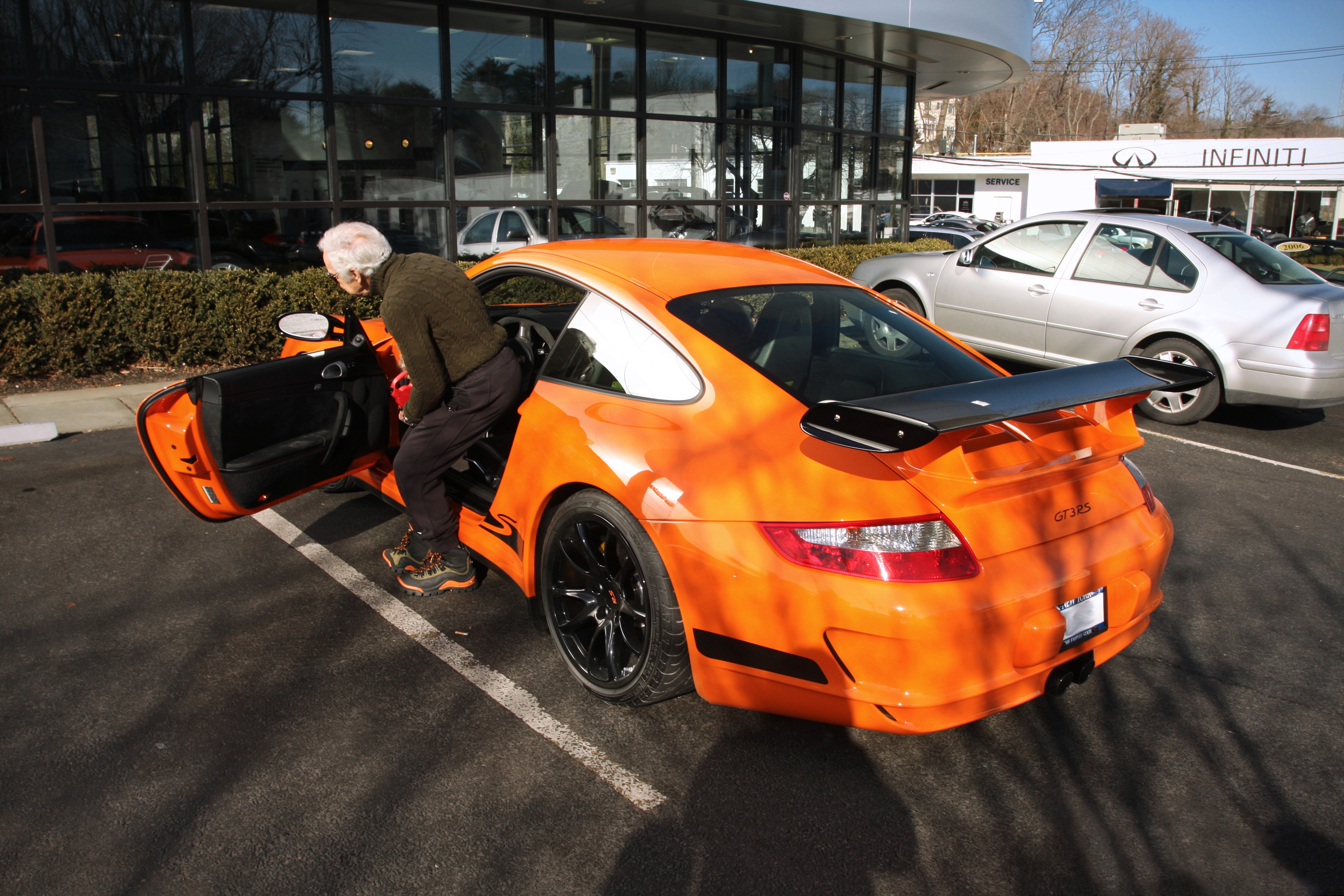 Ralph Lauren getting in his orange Porsche 997 GT3 RS after talking with us for a while.